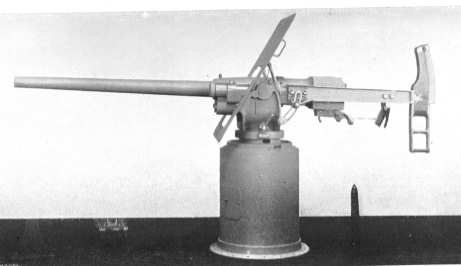 Photograph of QF 6 pounder gun of Hotchkiss design, made by Elswick Ordnance Company, UK.